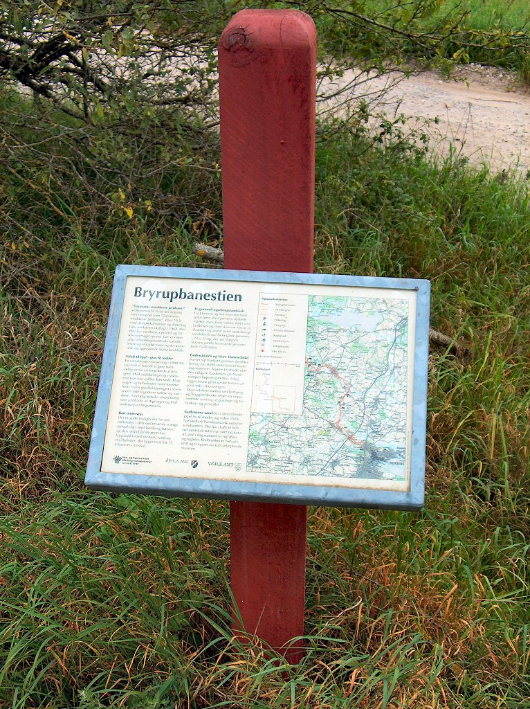 A sign on the natural path Horsens-Silkeborg